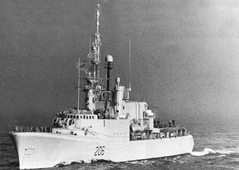 The Royal Canadian Navy destroyer HMCS Saguenay (DDH 206) underway, in 1981. She was assigned to the NATO Standing Naval Force Atlantic (STANAVFORLANT).